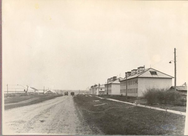 Kommunisticheskaya street in 1962.